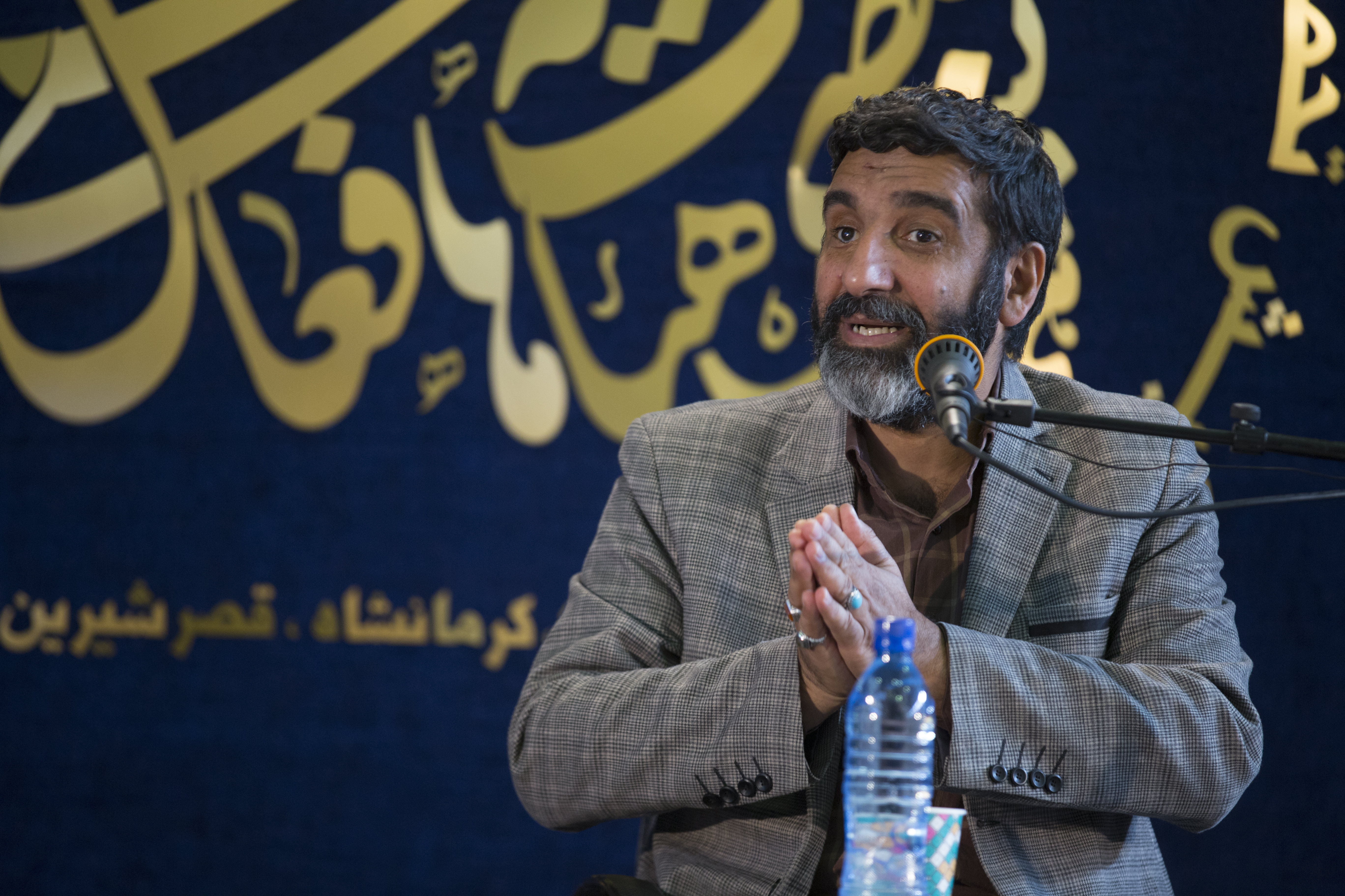 سخنرانی حسین یکتا فرمانده قرارگاه خاتم و بنیان گذار راهیان نور و مسئول بنیاد کرامت رضوی و موئسس و رئیس کل ستاد اربعین آستان قدس رضوی در جمع هیأت های مذهبی در ورزشگاه شهیدان قصر شیرین به مناسبت فرا رسیدن بیست دو دوم بهمن ماه. عکس: مصطفی معراجی